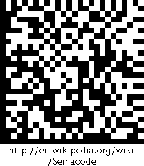 Semacode of the URL for the Semacode article at the English Wikipedia